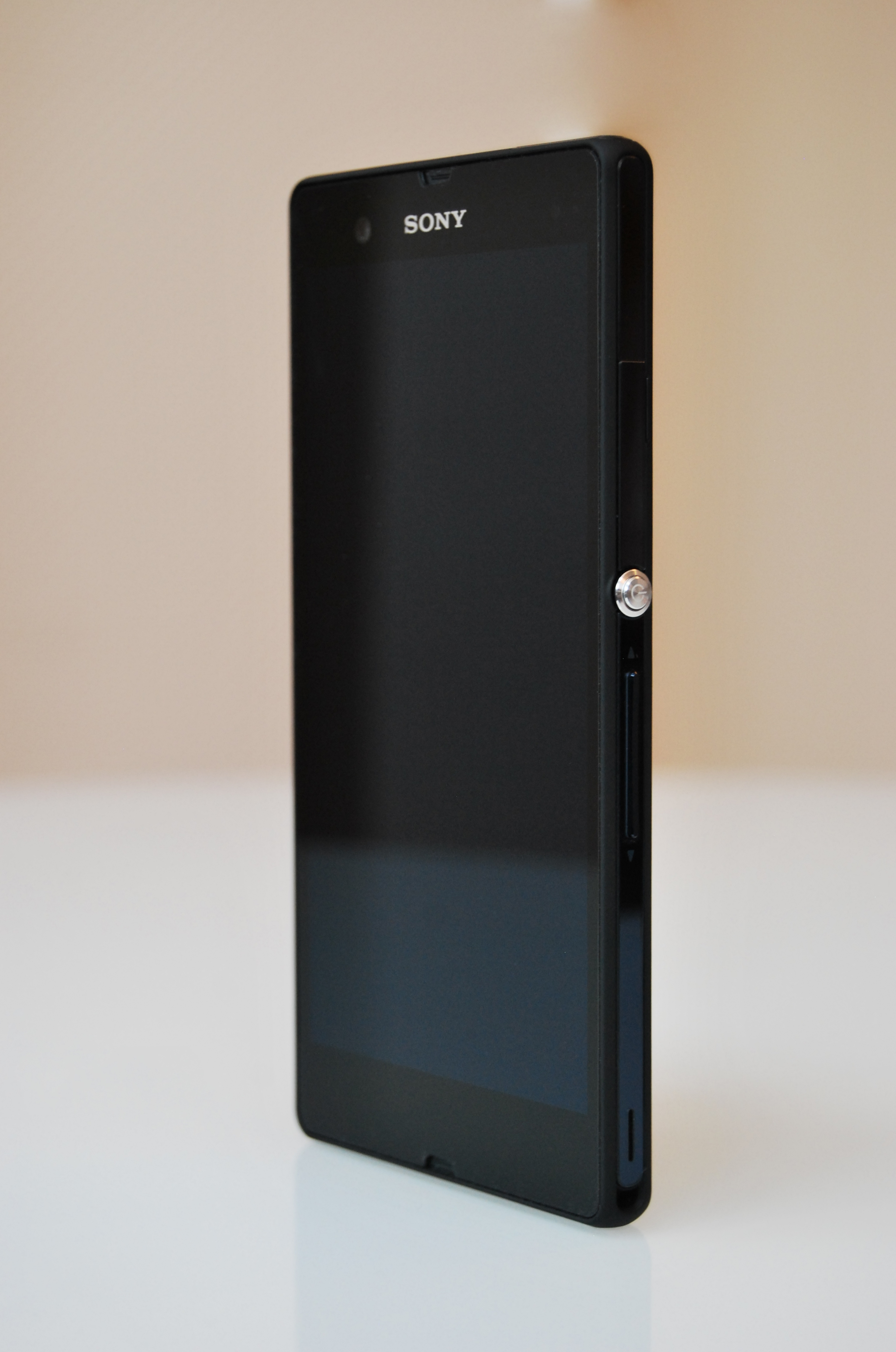 Sony Xperia Z C6603 black side view